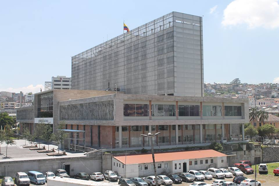 Panorámica del complejo del Palacio Legislativo de Quito.